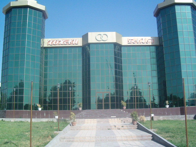 Wedding Party Center in Kulob City